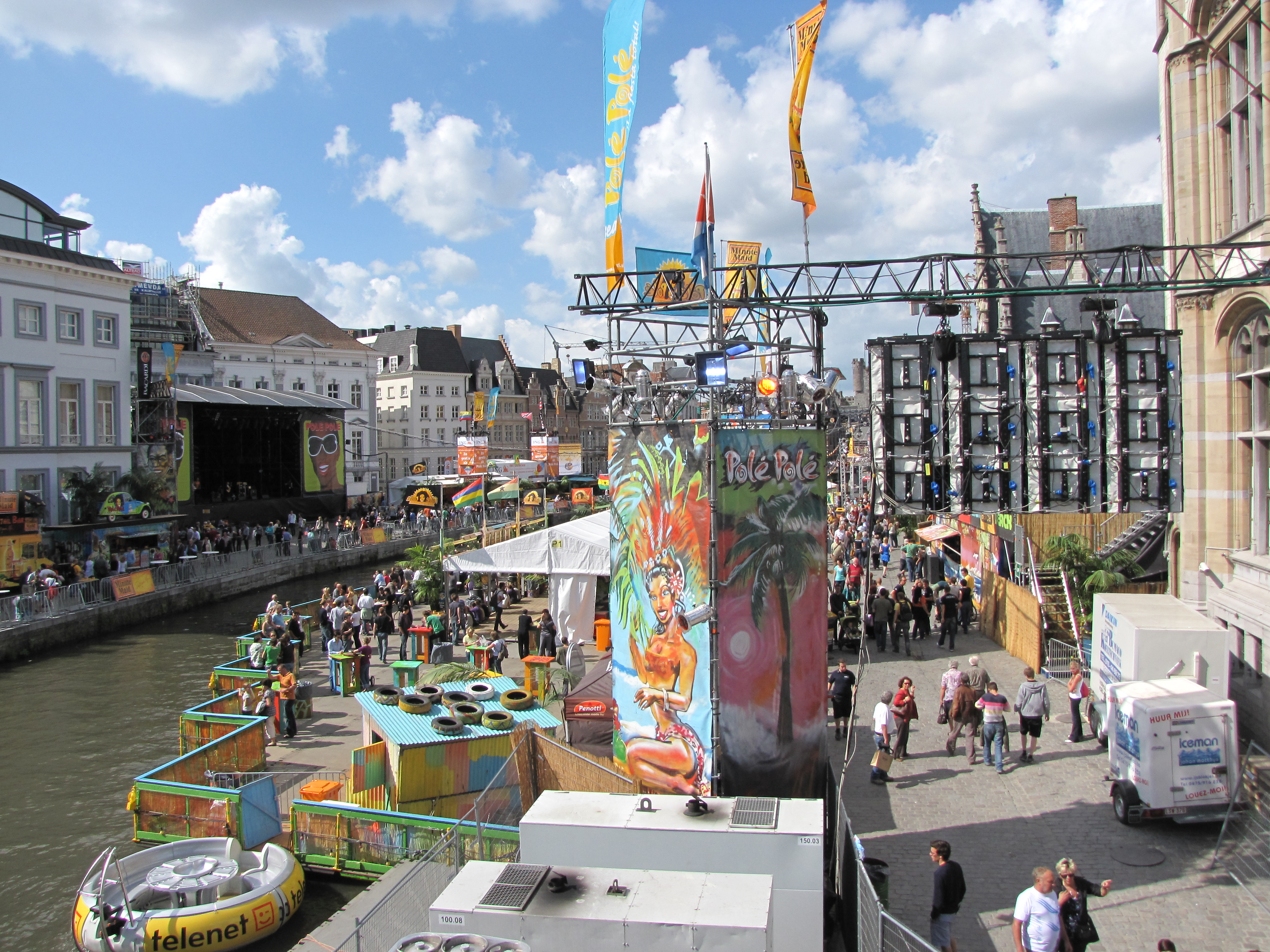 Gentse Feesten 2009 Polé Polé